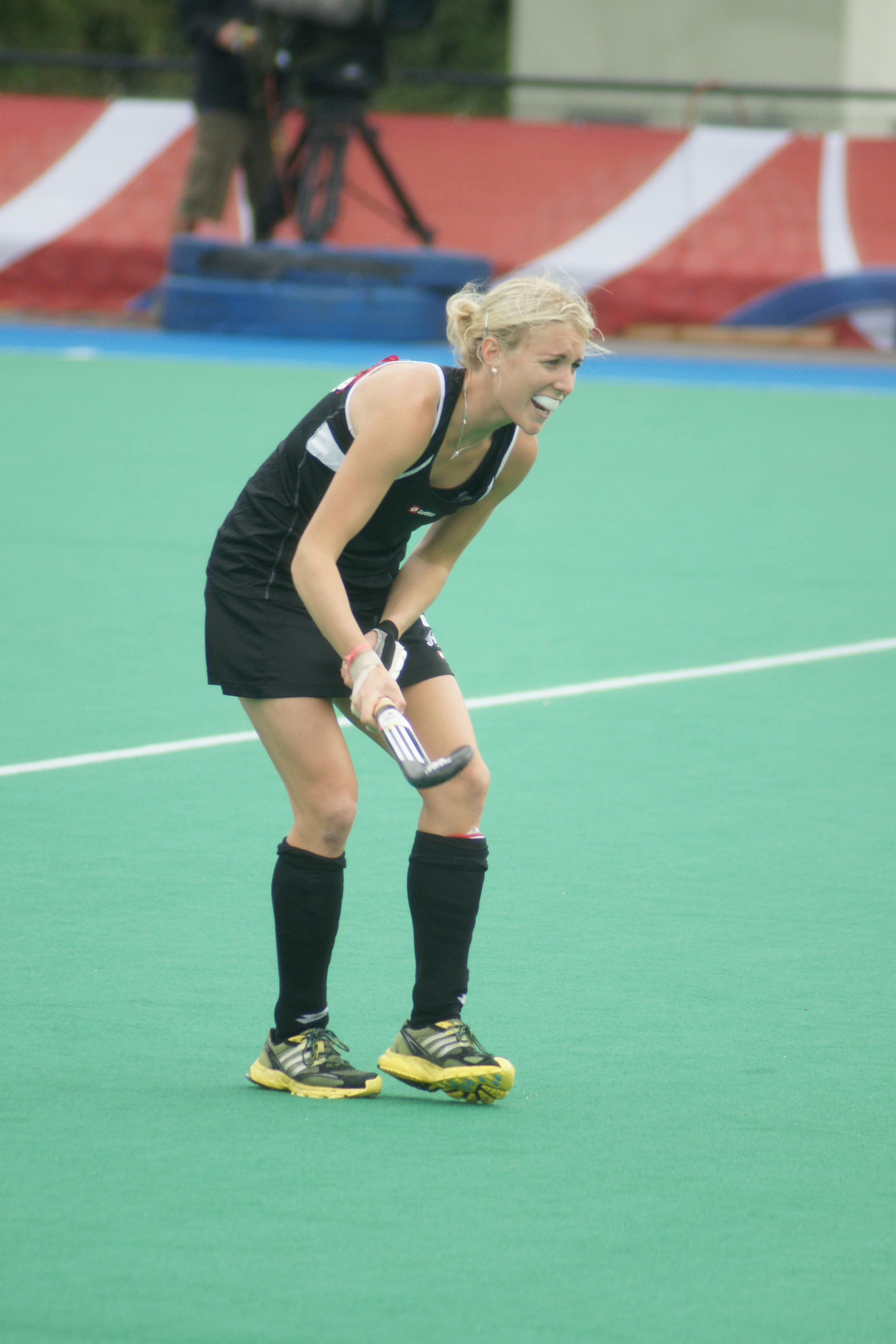 Emily Naylor of the New Zealand women's national field hockey team, against China on 18 July 2009.